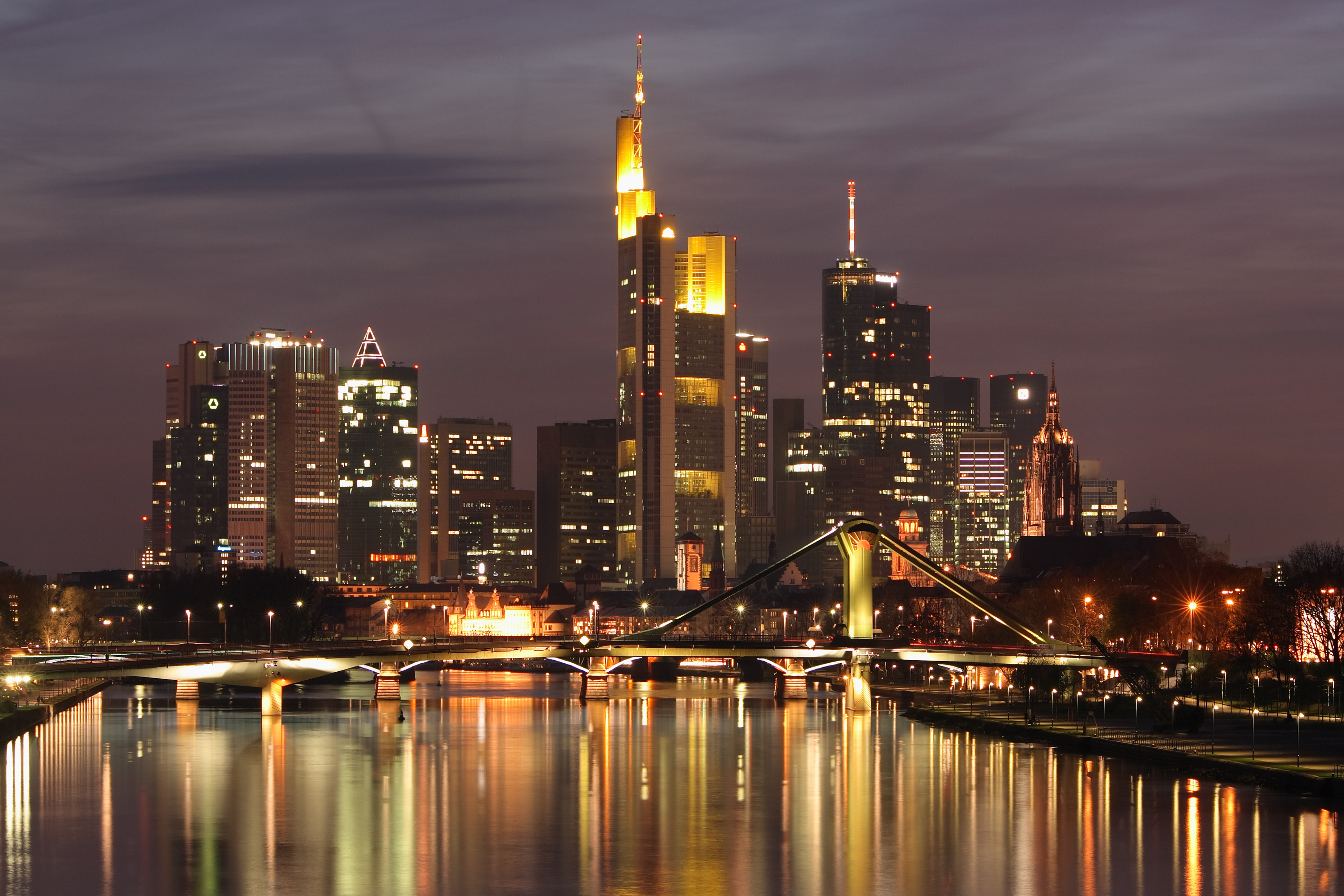 Downtown Frankfurt am Main, Germany; seen from Deutschherrn Bridge.